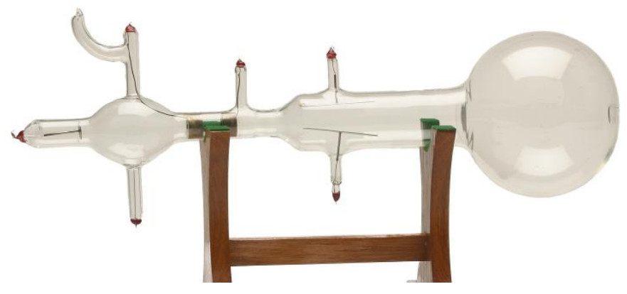 A replica of JJ Thomson's Crookes tube on display at Cambridge University.